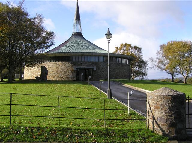 St Aengus Church, Burt The last time I was here was in the late 1960's on a school trip; the building takes its inspiration from Grianán of Aileach, the Bronze Age fortification that dominates the landscape above Burt - more at